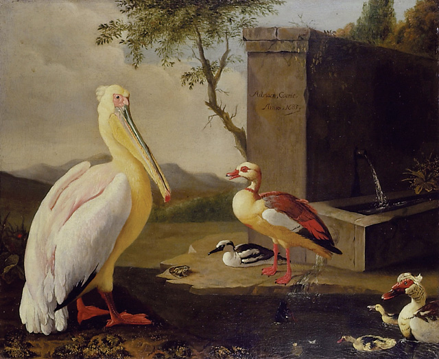 This image is available from the Netherlands Institute for Art Historyunder digital ID 121673. This tag does not indicate the copyright status of the attached work. A normal copyright tag is still required. See Commons:Licensing.